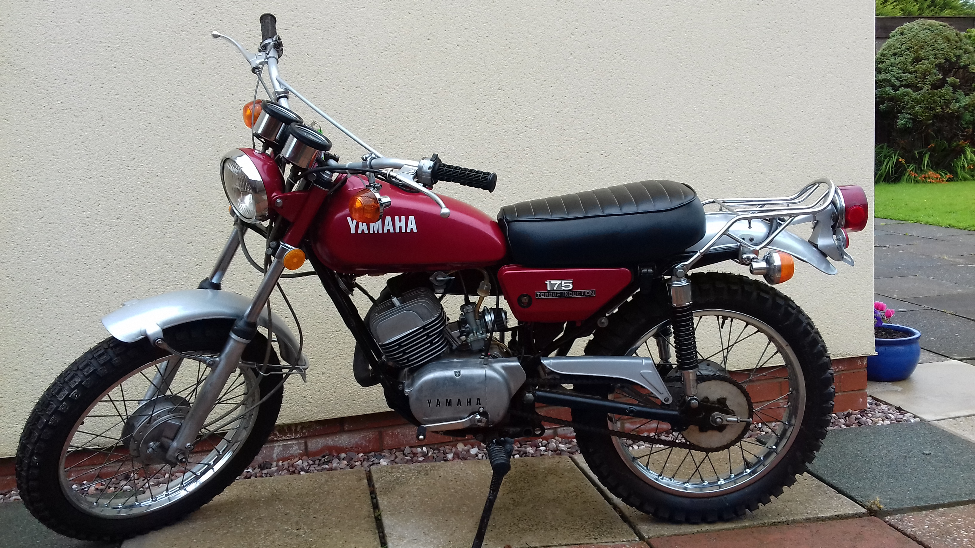 1972 Yamaha CT2 after light restoration. Note: non standard indicator lamps and seat cover.